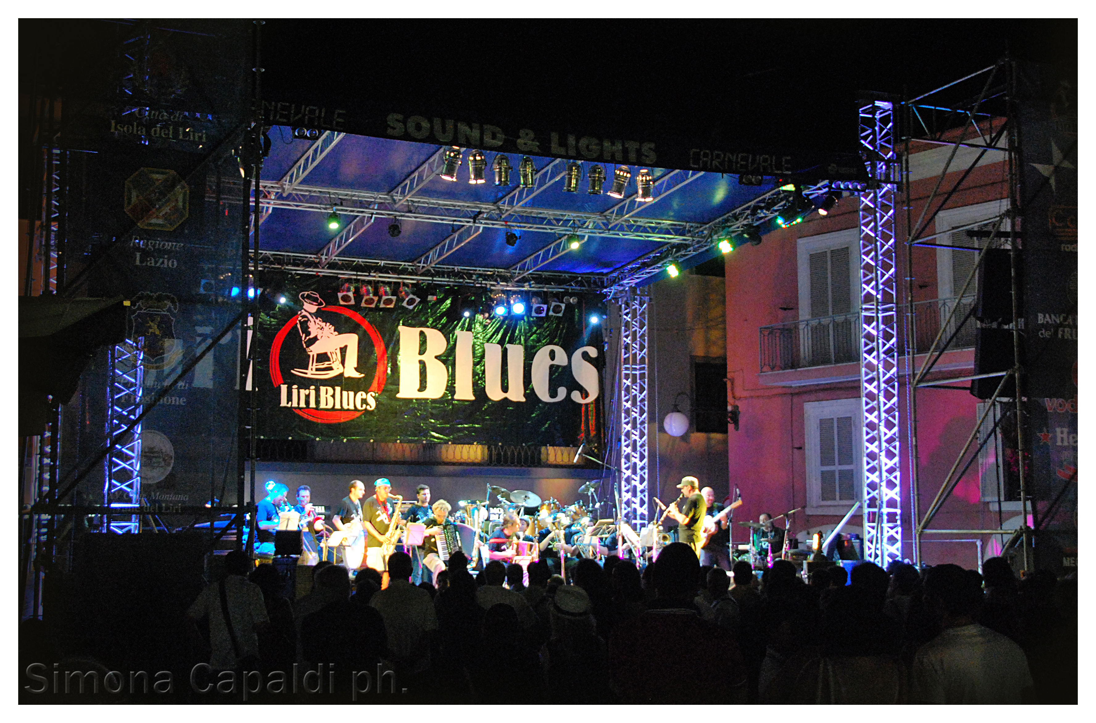 The stage of the Liri Blues Festival in Isola del Liri (Boncompagni square)